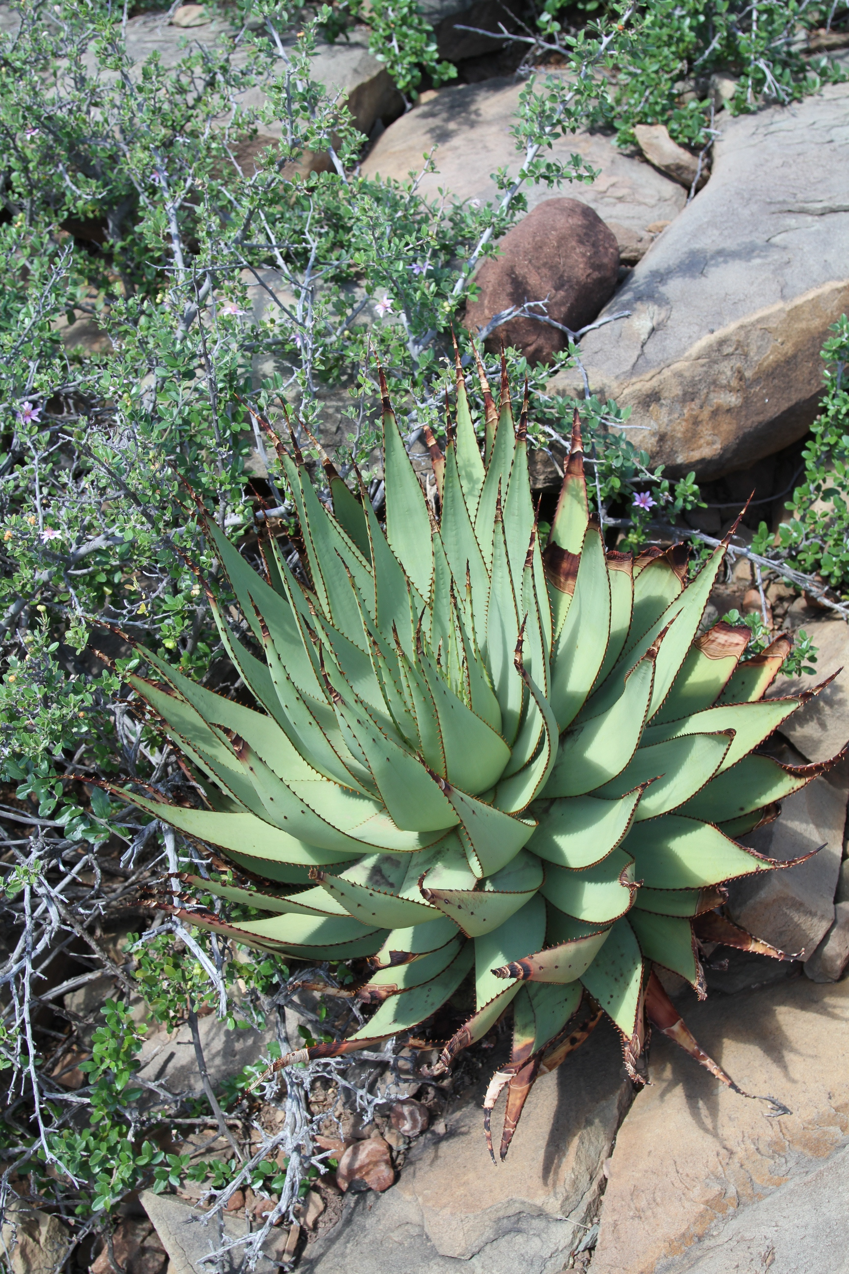 South Africa. Karoo National Park.